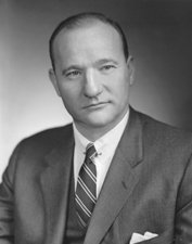 United States Senator James B. Pearson (R-KS), served 1962-1978